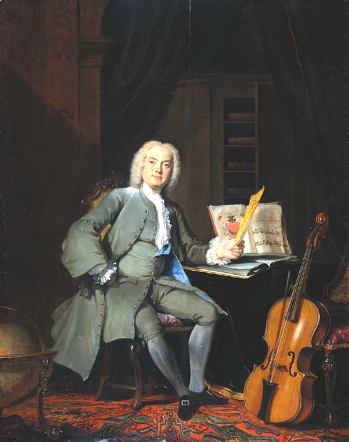 Portrait of an art and music lover, presumably on the three brothers from the Mannonite Van der Mersch family of Amsterdam. The man is portrayed at full-length, sitting on a table holding a drawing. On the table lay an art book and a music book with the coat of arms of the Van der Mersch family. To the right a cello leans against a chair. To the left a globe is standing.